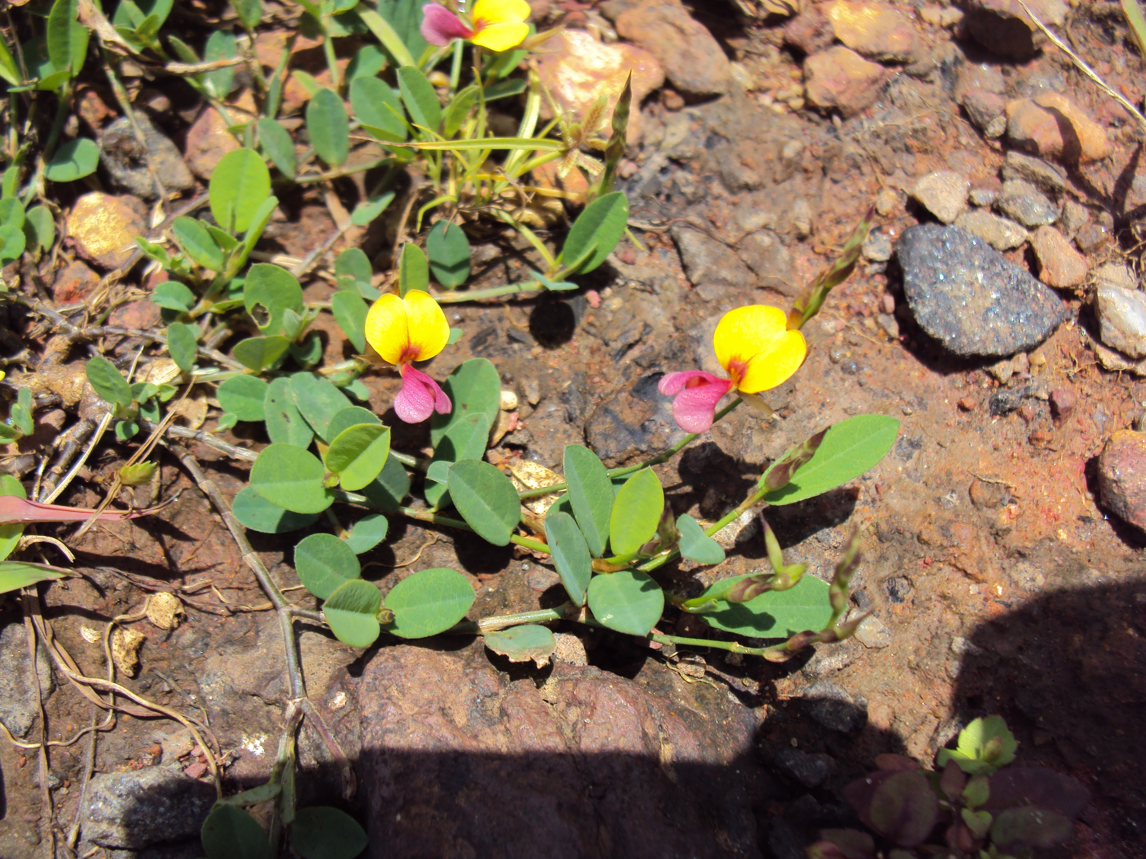 Alysicarpus bupleurifolius